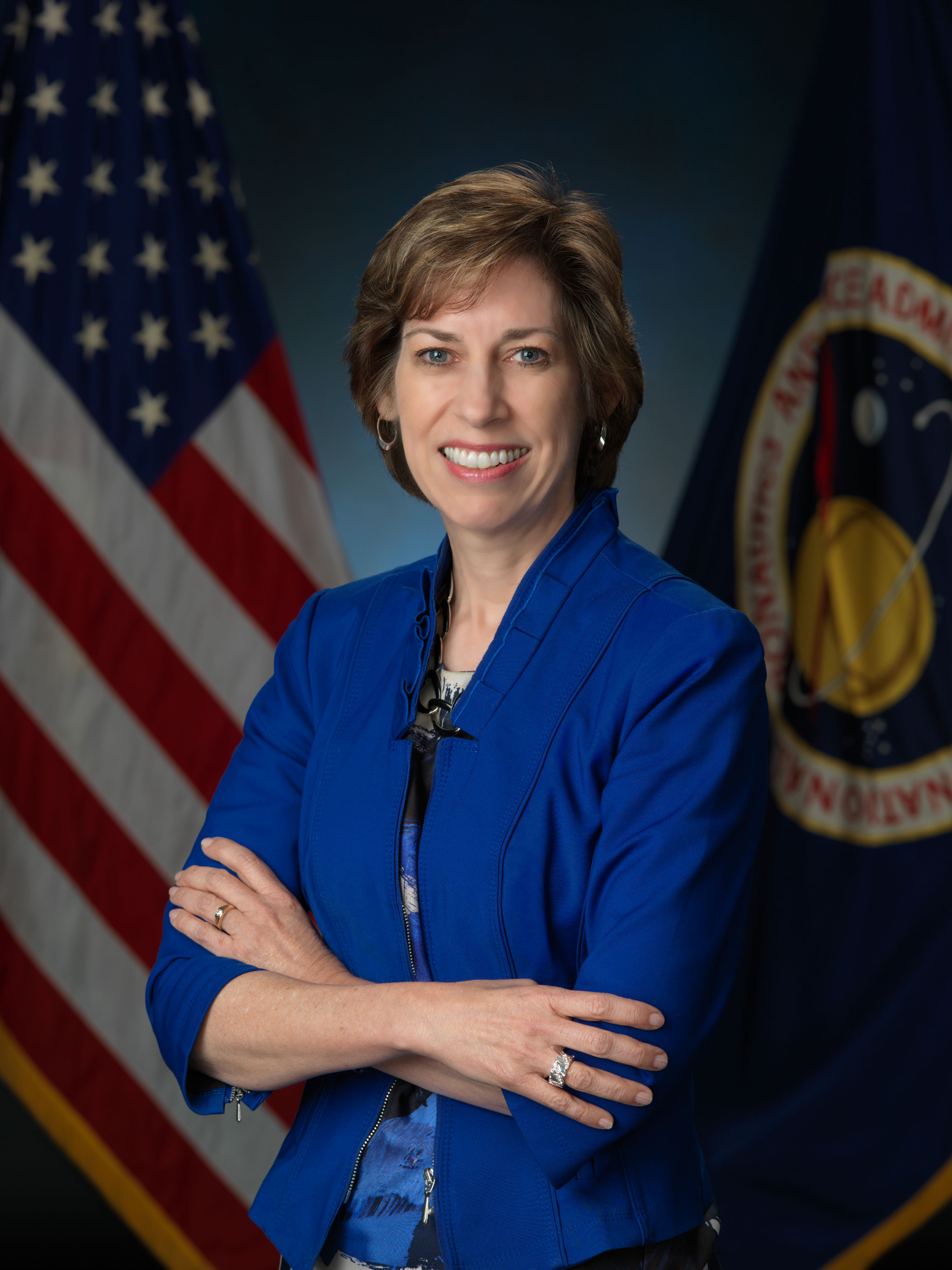 Official portrait of JSC Center Director Ellen Ochoa. Photo Date: 04-15-14. Location: Bldg. 8, Room 183 - Photo Studio.